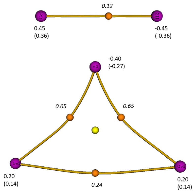 Molecular graphs of GeH and Ge2H